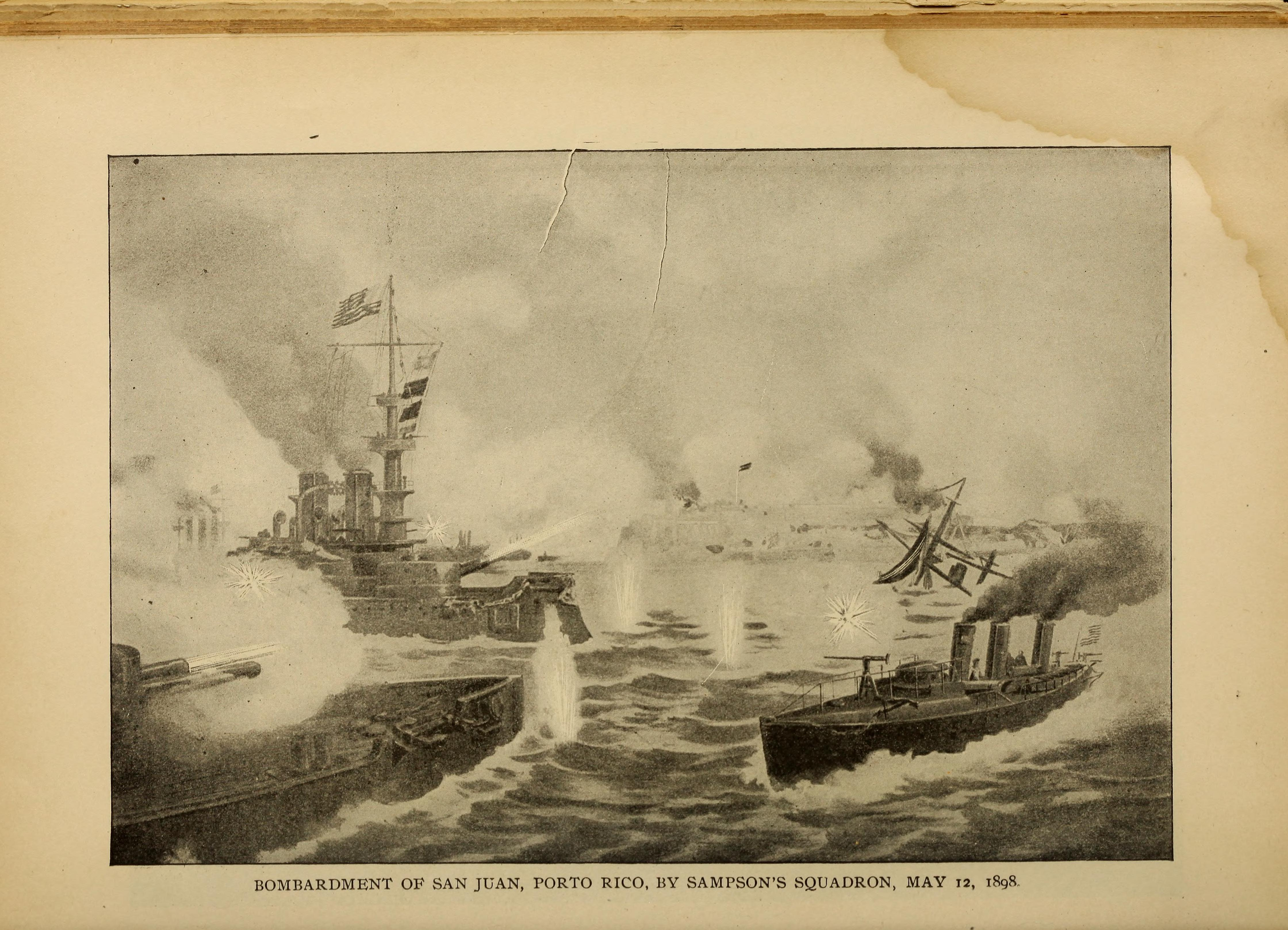 Title: Hero tales of the American soldier and sailor as told by the heroes themselves and their comrades; the unwritten history of American chivalry Year: 1899 (1890s) Authors: Buel, James W. (James William), 1849-1920 Subjects: Spanish-American War, 1898 Publisher: Philadelphia, Pa., Century manufacturing company Text Appearing Before Image: ' Text Appearing After Image: '